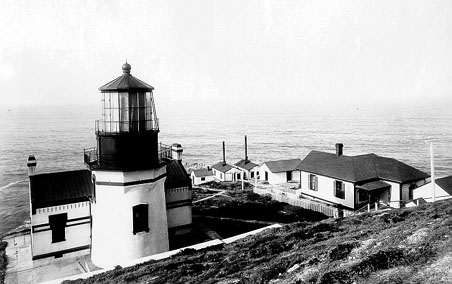 Public Domain statement here; Point Conception Light is a lighthouse on Point Conception at the west entrance of the Santa Barbara Channel, California. It is one of the earliest California lighthouses and is listed on the National Register of Historic Places.